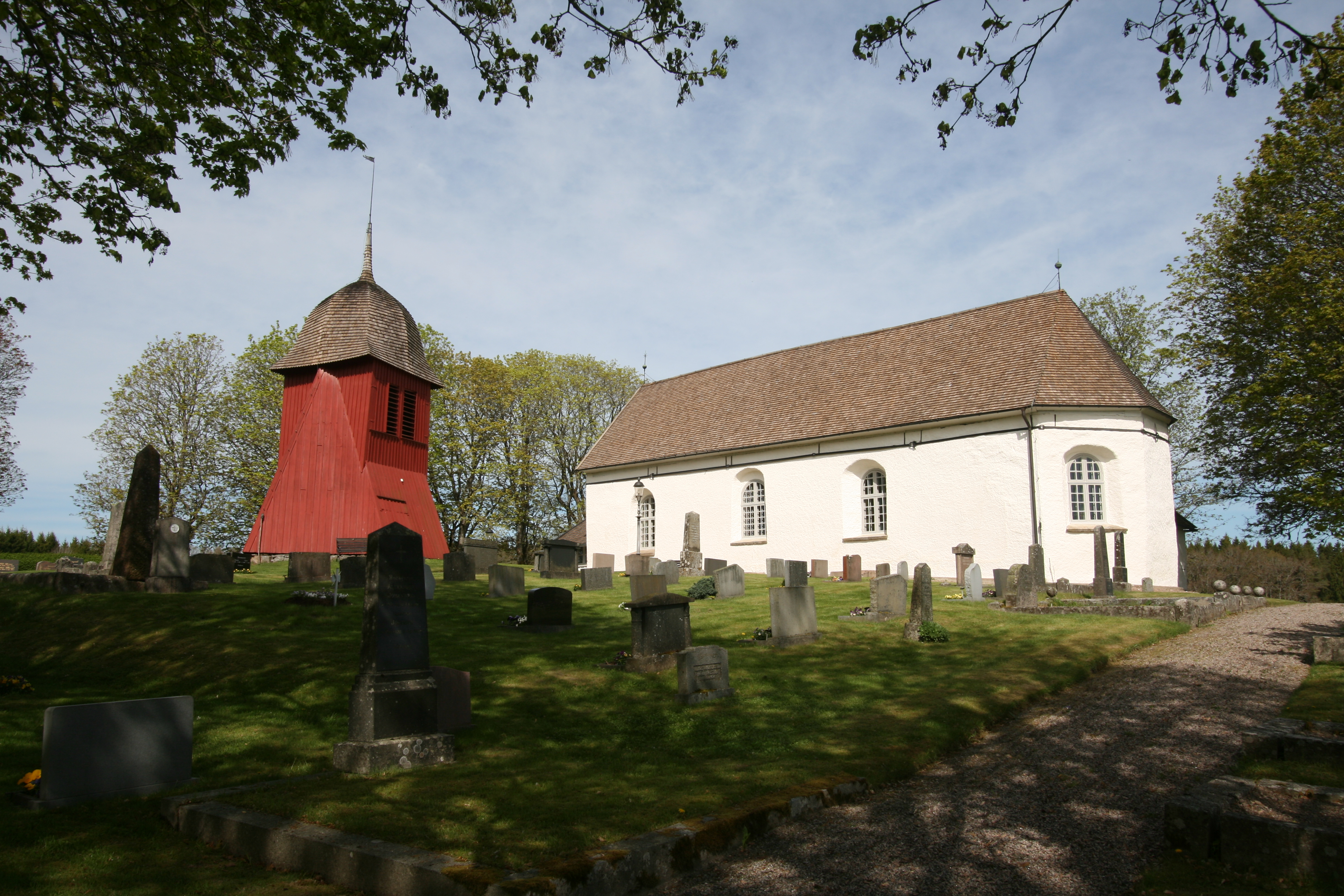 Molla church